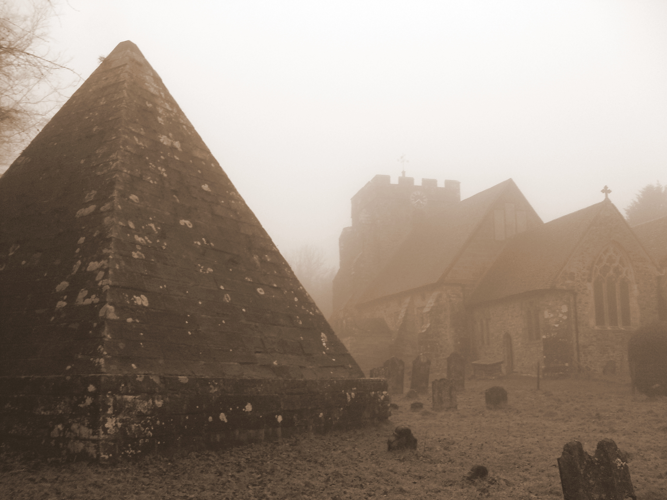 Pyramid mausoleum in Brightling, East Sussex of John "mad jack" Fuller (1757–1834), notable resident MP and prolific Folley builder.